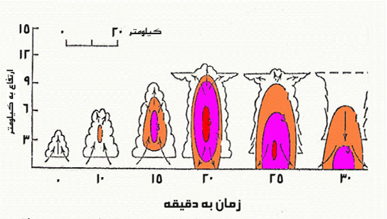 Common thunderstorm development cycle.